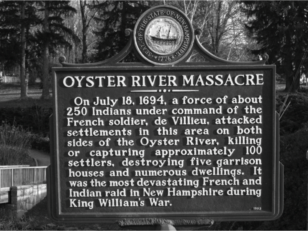 Oyster River Massacre Sign